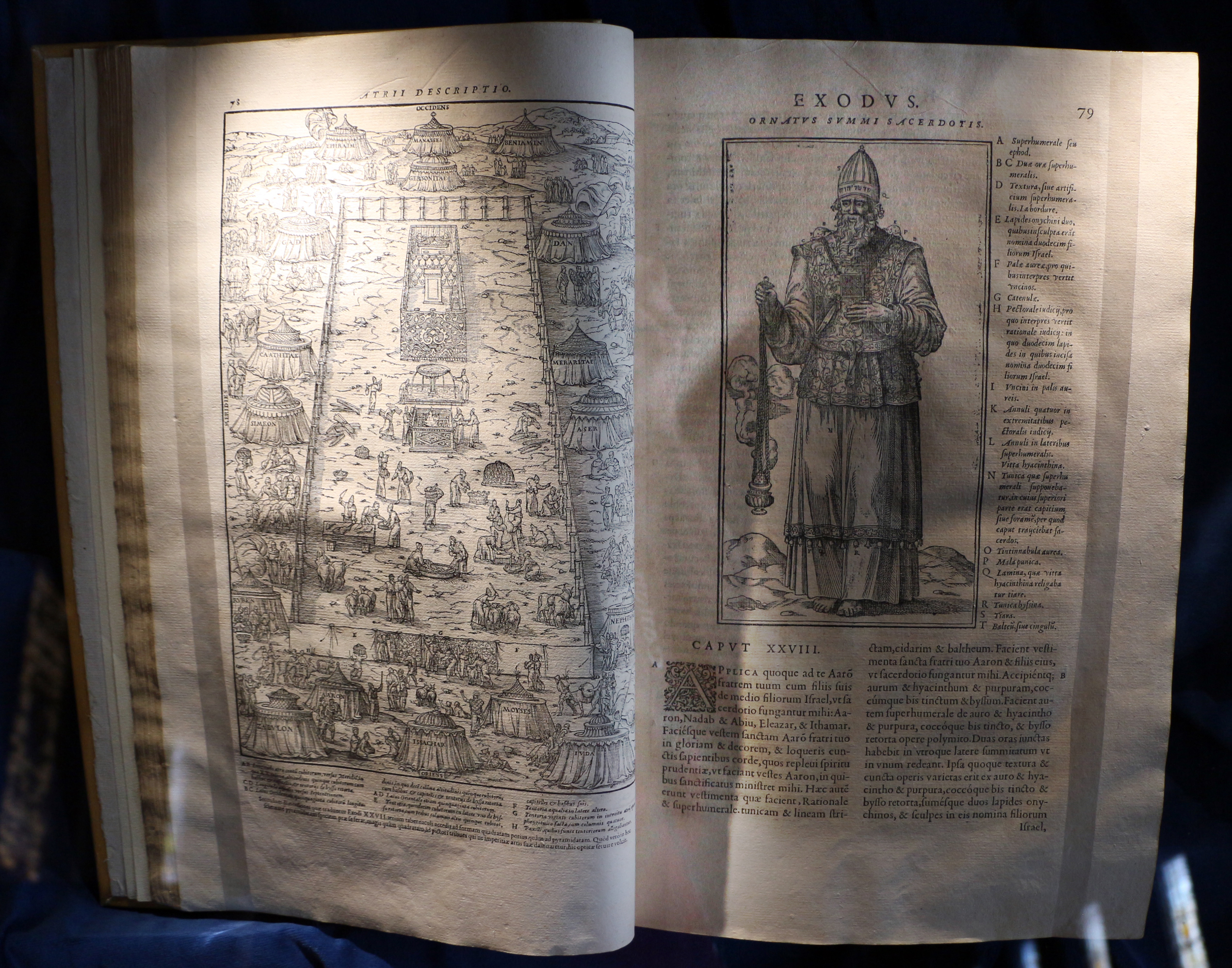 Biblioteca Medicea Laurenziana